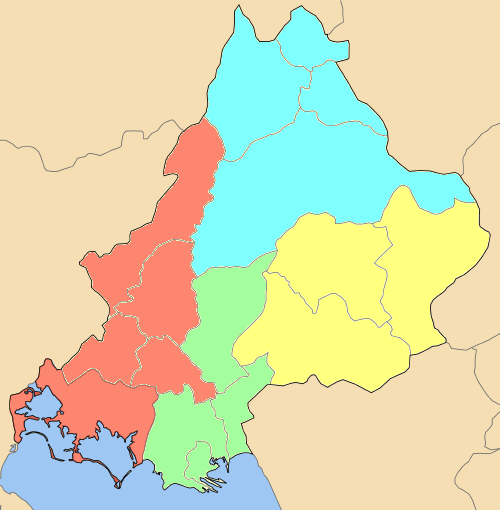 Arta municipalities colored